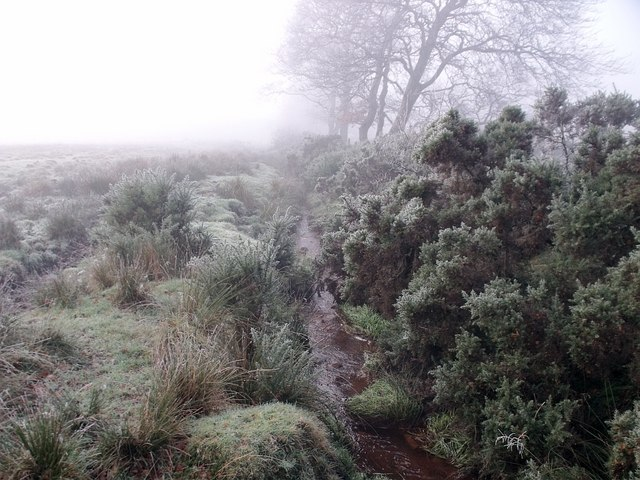 Burn heading west, Fannyside Muir This un-named burn gathers all the other water courses on the west side of Fannyside and flows towards the Luggie Water near Wester Glentore.